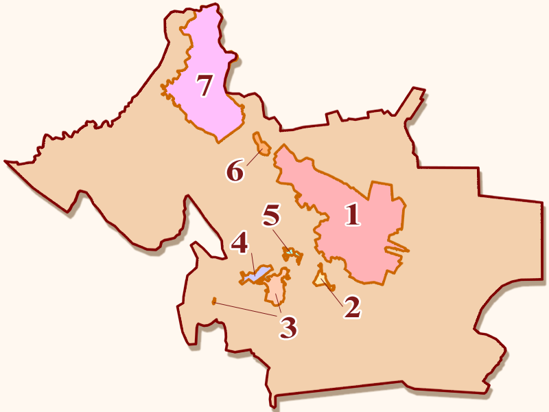 Map of Big Irkutsk